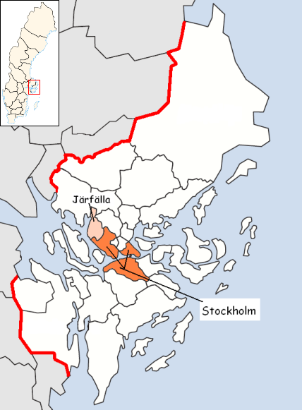 Järfälla Municipality in Stockholm County Designed by me. Mere outlines are a PD source from